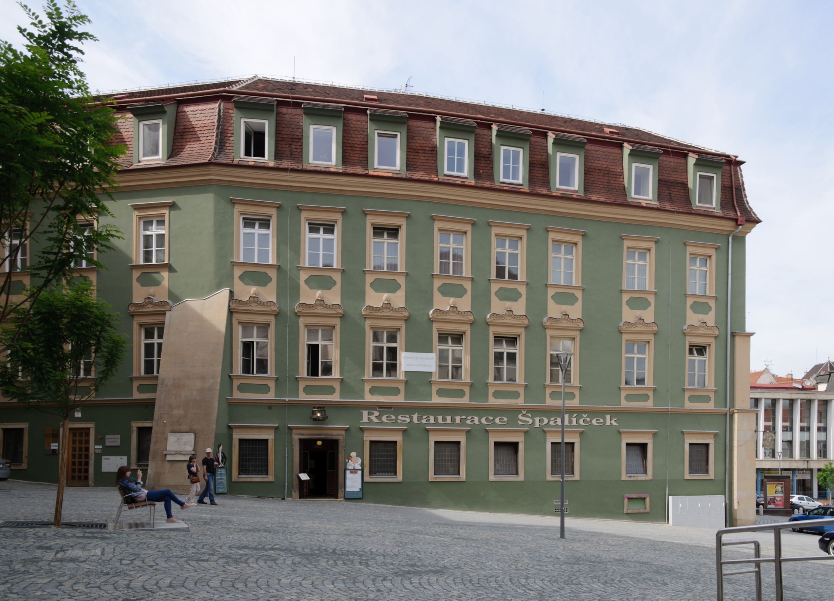 Building on The Green Market square and Peroutkova street in Brno, Czech Republic.